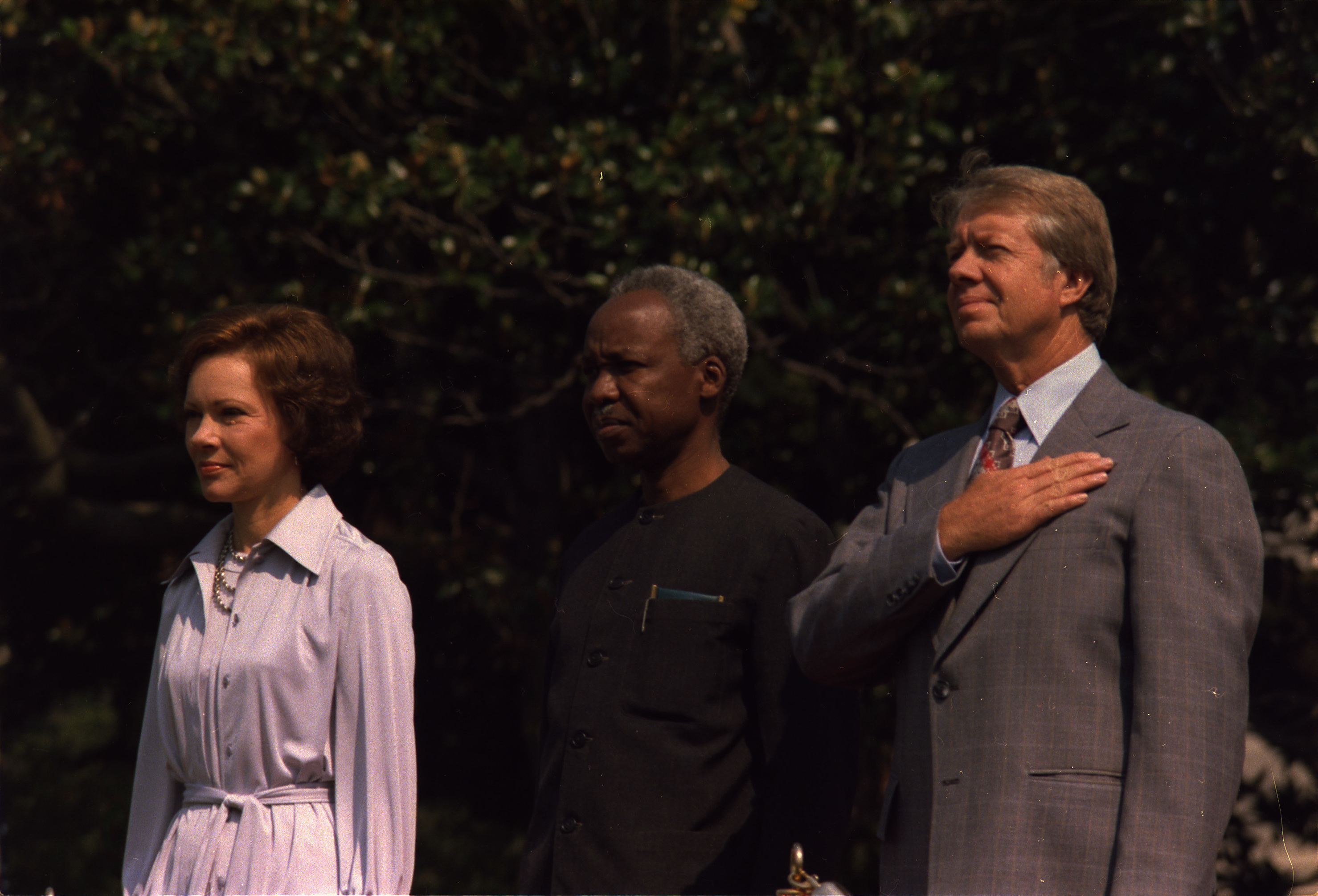 Rosalynn Carter, President Julius Nyerere of Tanzania and Jimmy Carter, 08/04/1977